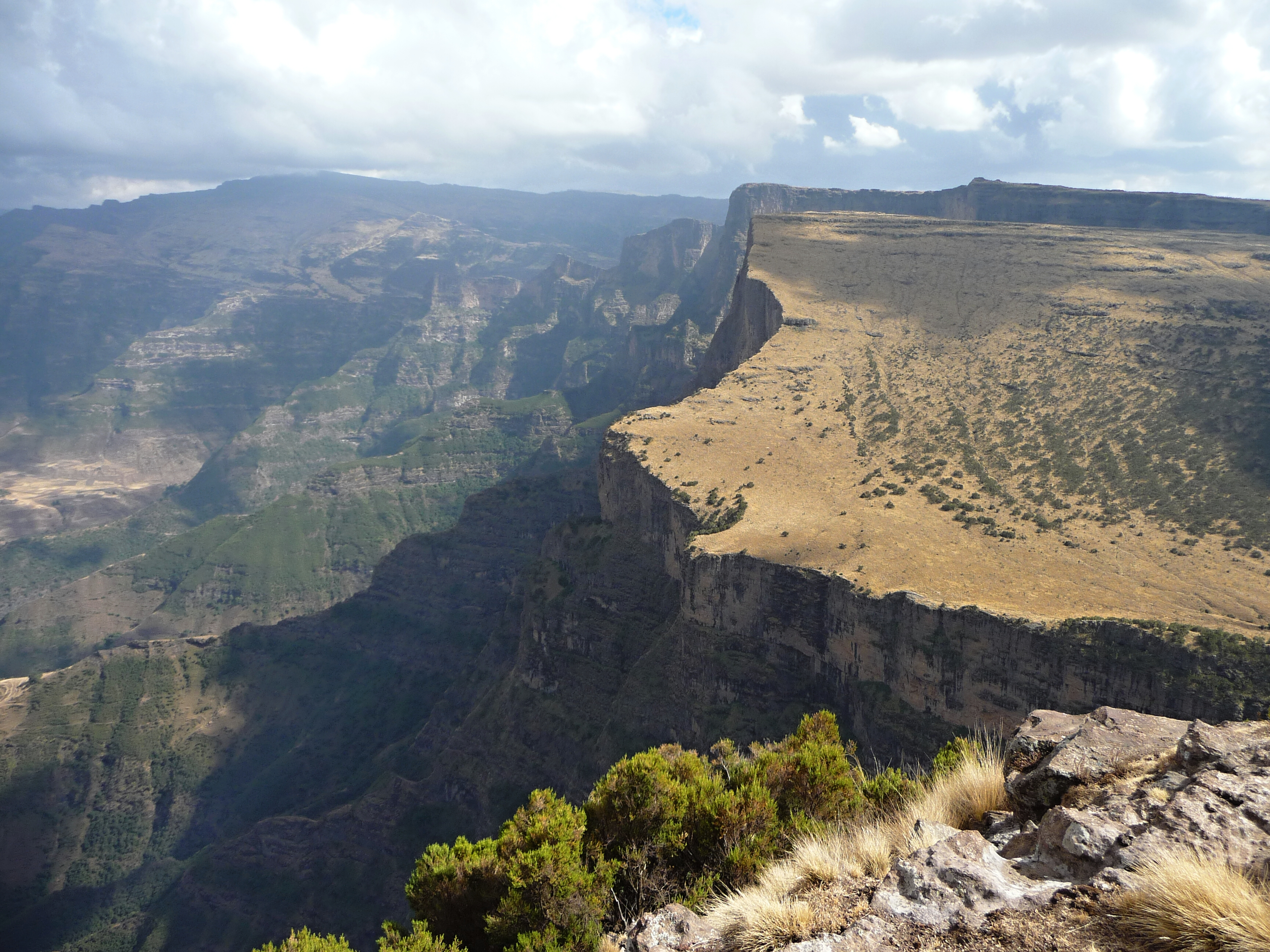 Simien Mountains (Amhara Region, Ethiopia).